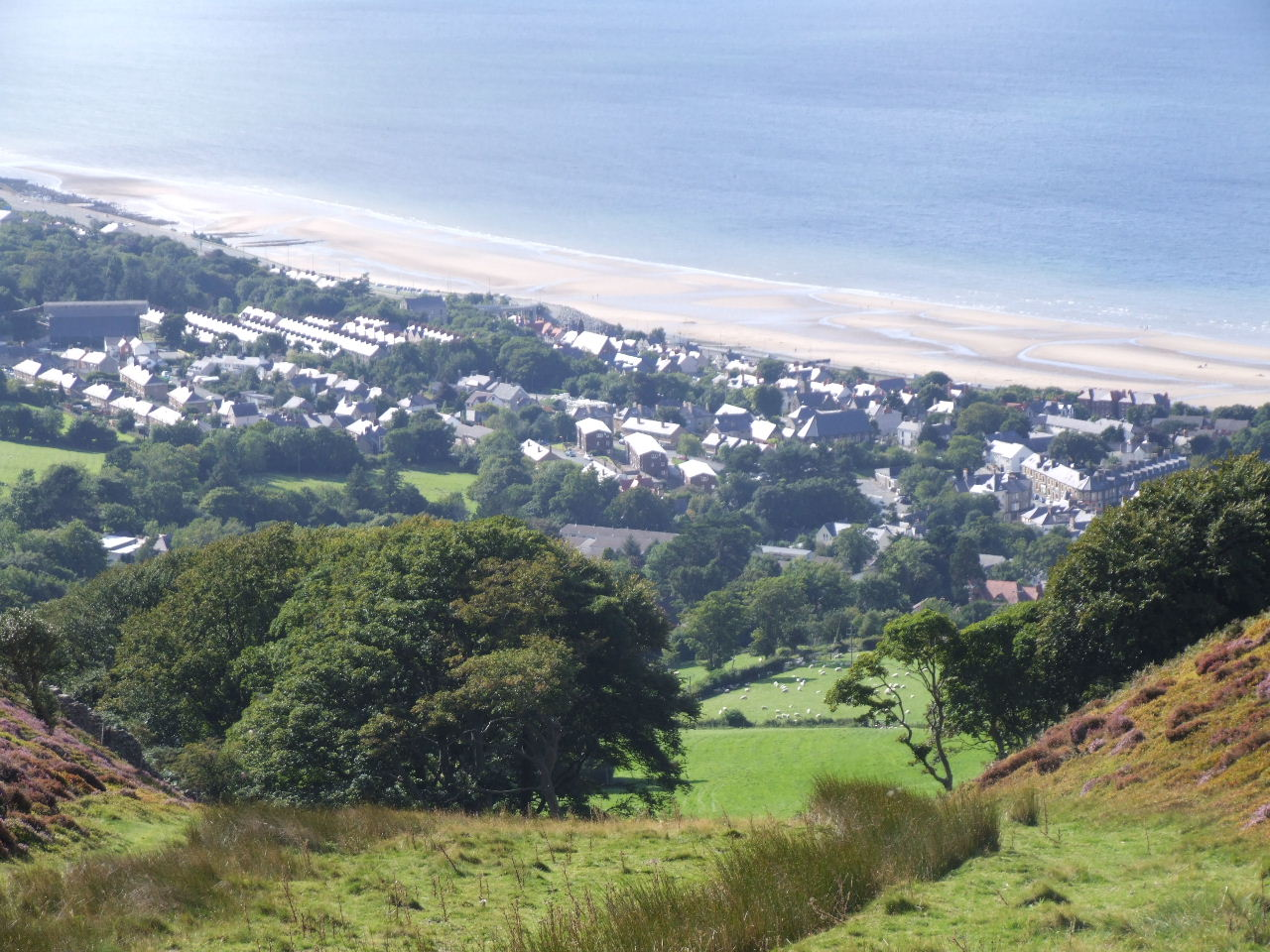 Pantyrafon - the town centre of Penmaenmawr, Conwy County, Wales - viewed from Gwddw Glas.